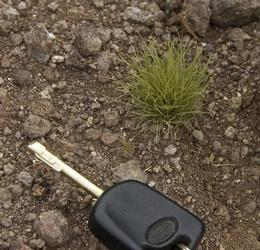 Scale photo of Bulbostylis neglecta